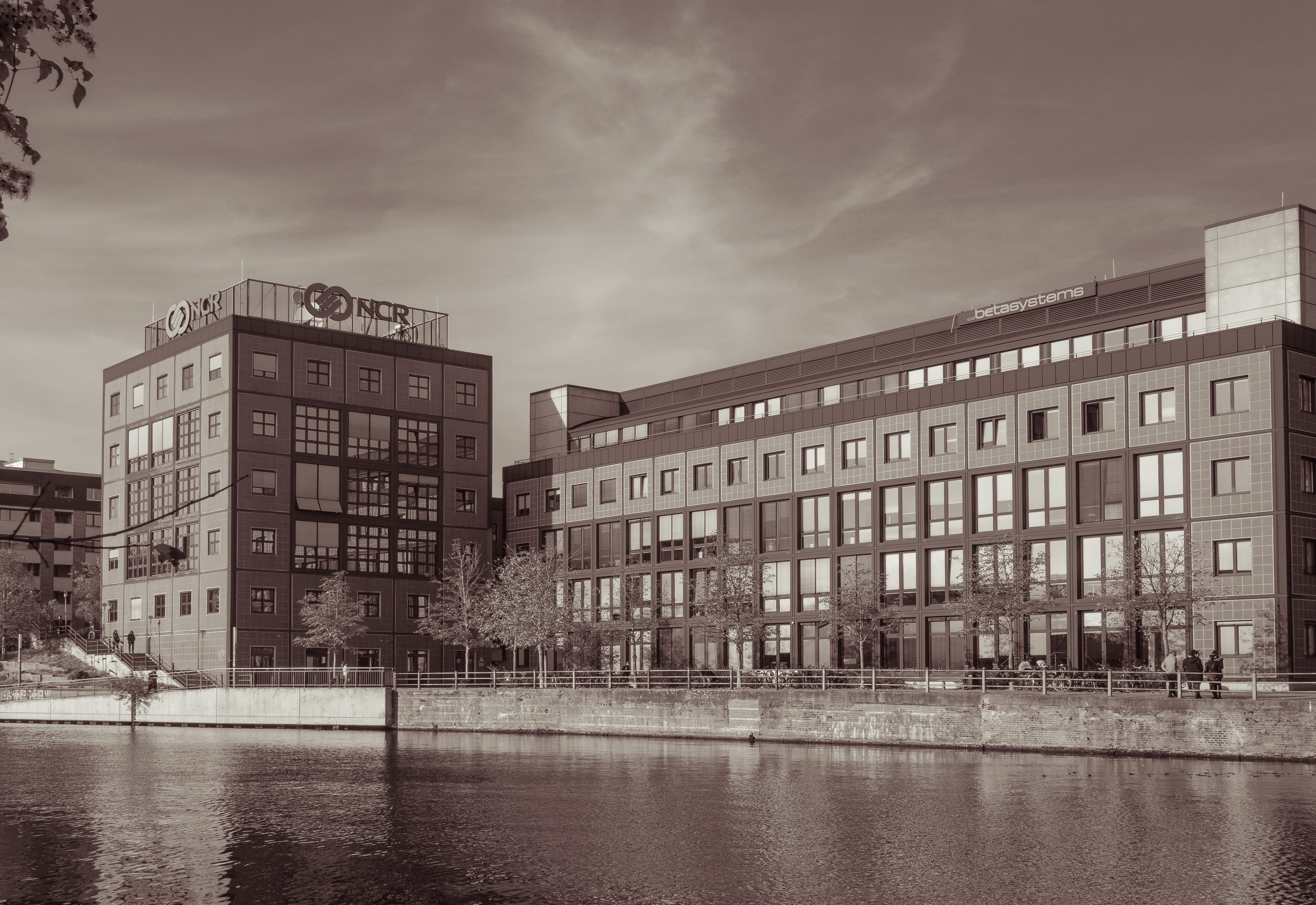 Berlin, Spree, Spree-side view at Lessingbrücke/Stromstr from Holsteiner Ufer